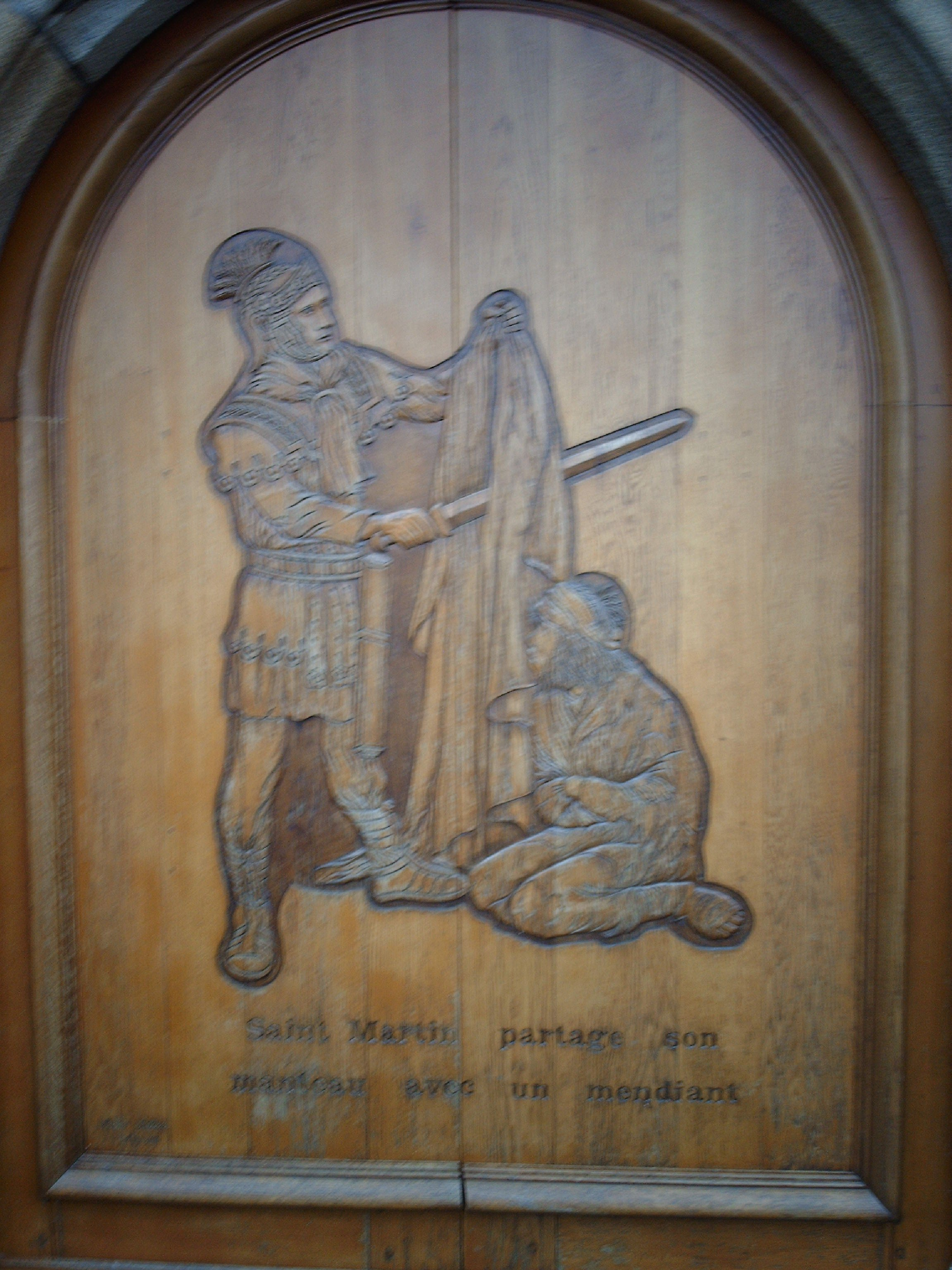 detail de la porte de l'église st martin Ploeren(56) St. Martin dividing his cloak to share with an unclad beggar.